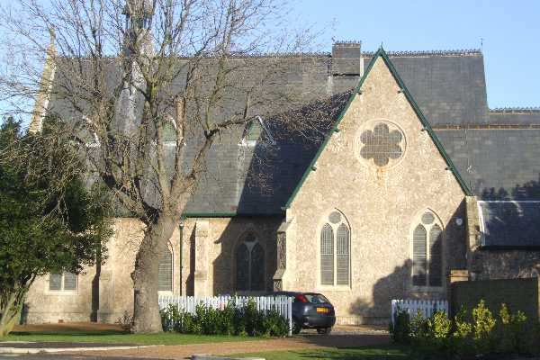 SS Peter and Paul church, Horseshoe Garrison, Shoeburyness, Essex, seen from the south